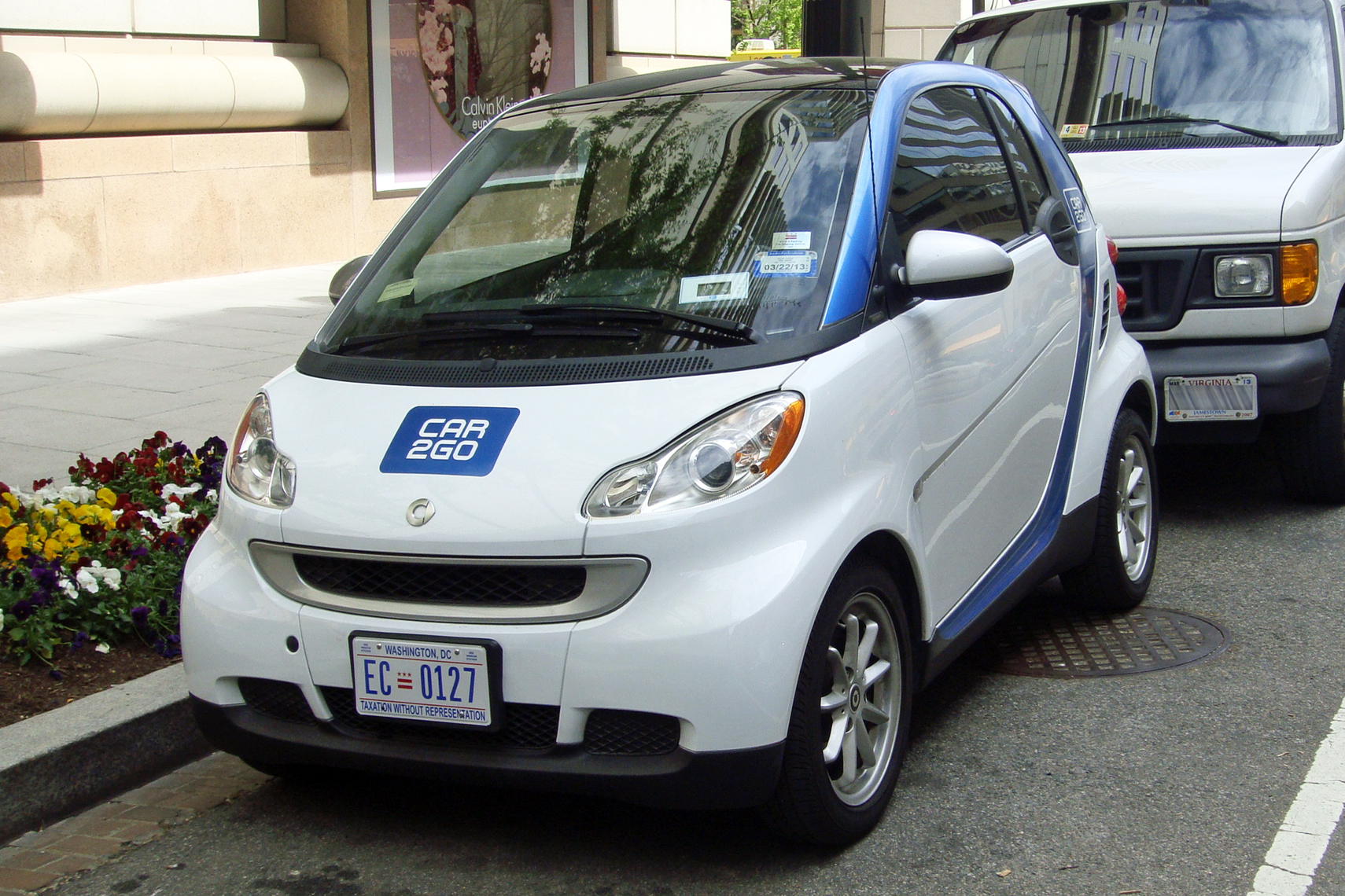 Smart fortwo from Car2Go carsharing service at downtown Washington, D.C.